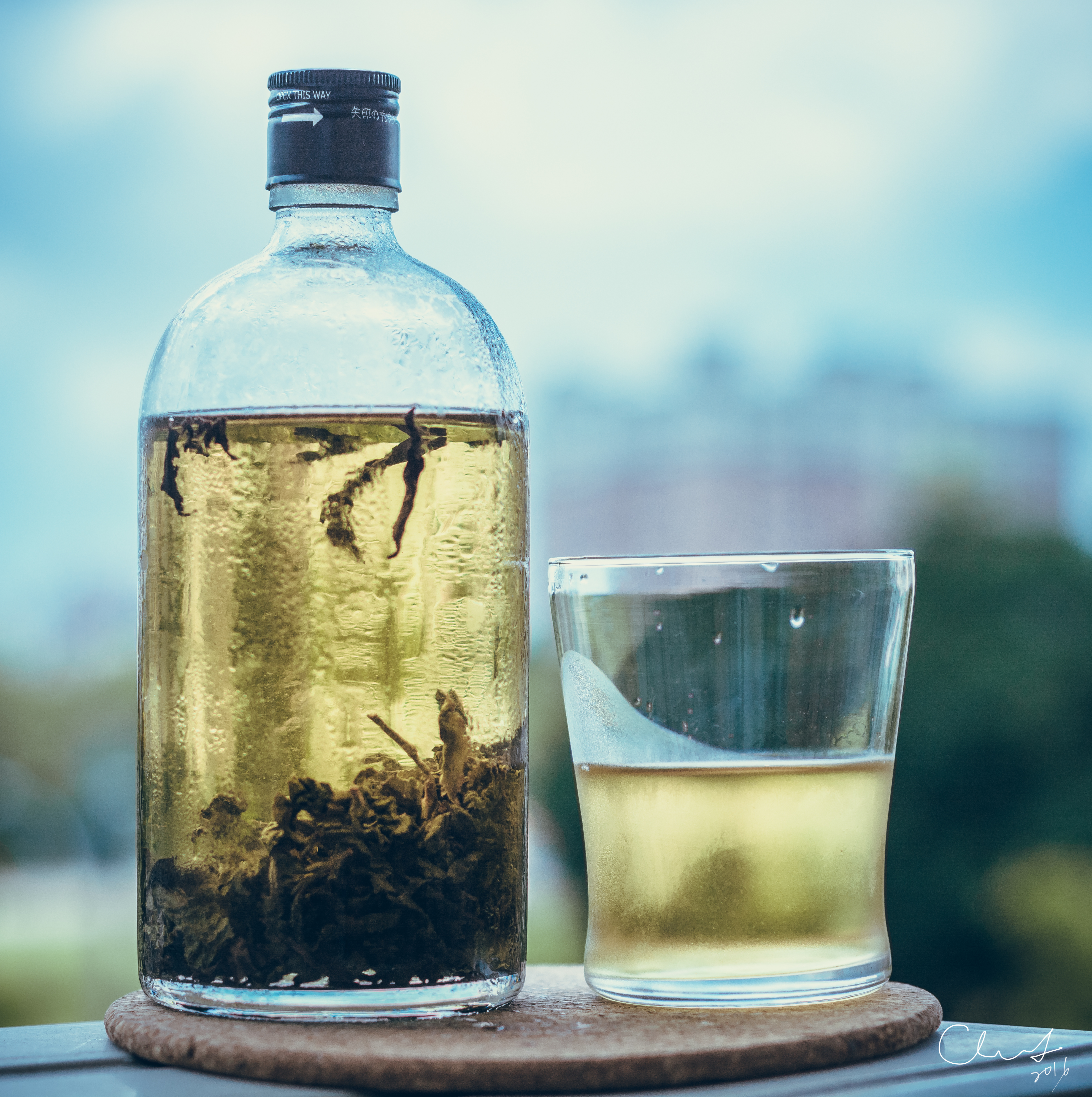 烏龍混紅茶 (Oolong Black tea mixed)